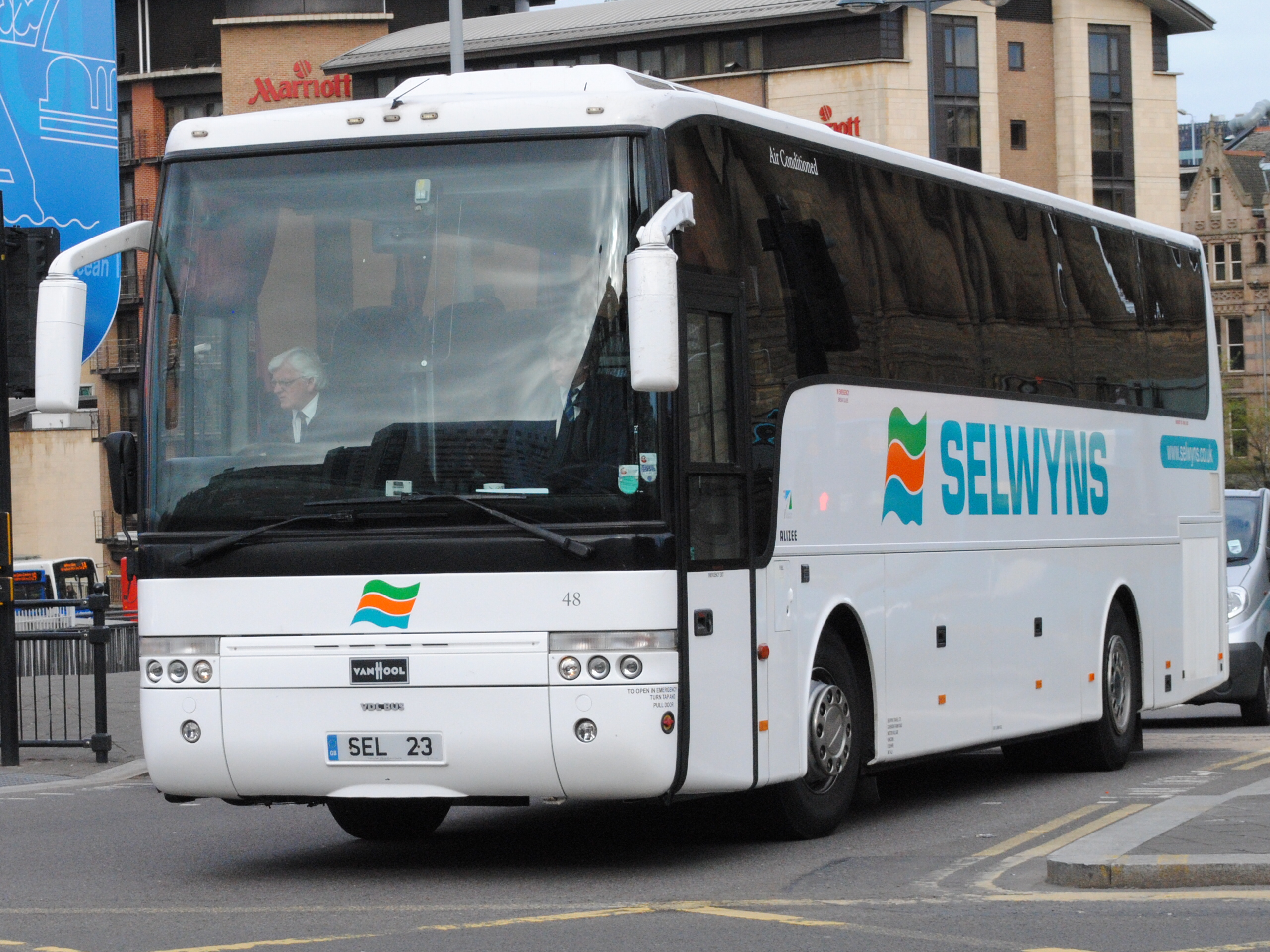 VDL DE4000 Van Hool T9 Alizee. originally registered YJ04HHB